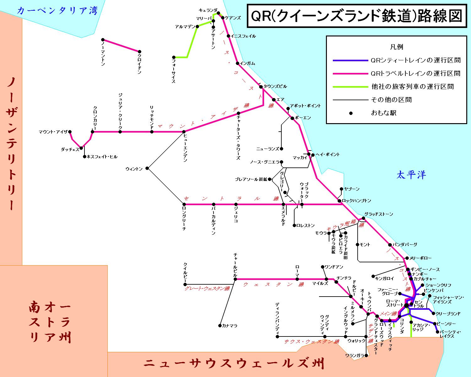 Railway network map of QR (Queensland Rail), Australia, written in Japanese. The section in which passenger train run are drawn of thick lines colored by operator, Citytrain, Traveltrain, and others. The rest of the sections black thin lines. Only major stations are described.